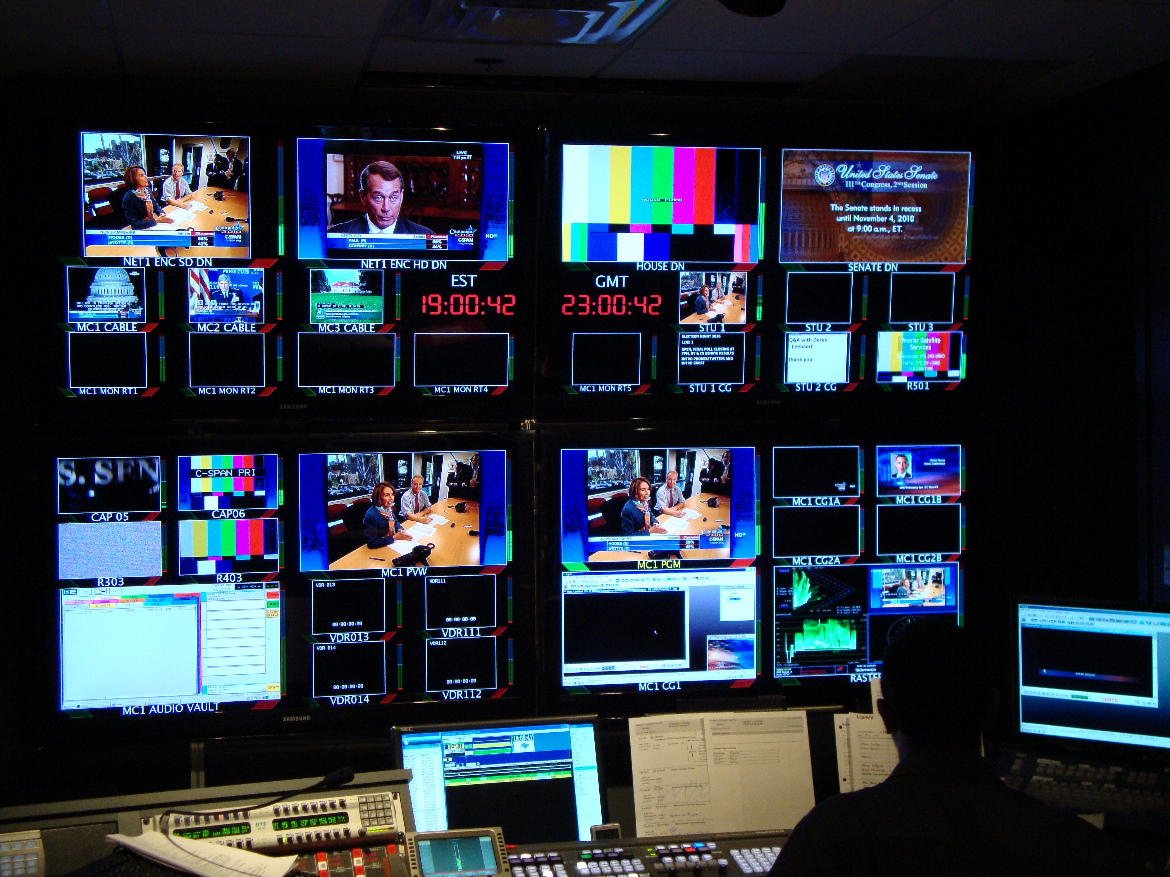 Control room at C-SPAN.